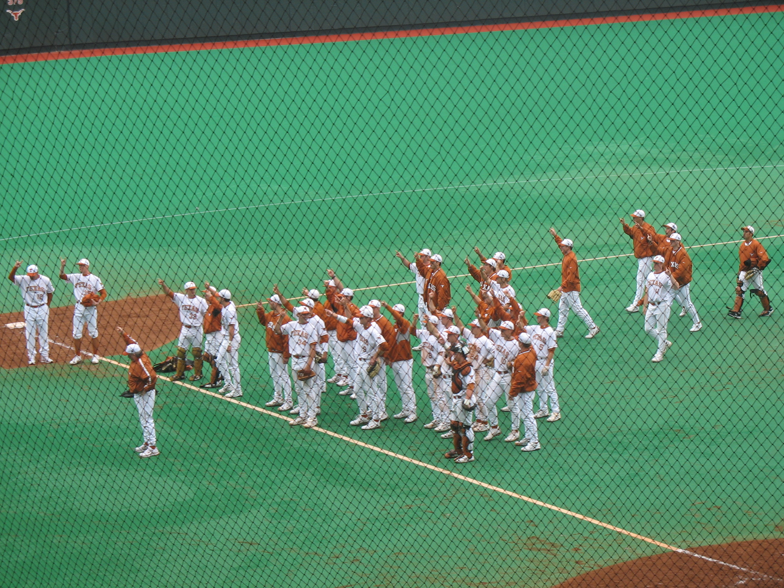 Eyes of Texas after Texas/Washington State Baseball Game @ UFCU Disch-Falk Field